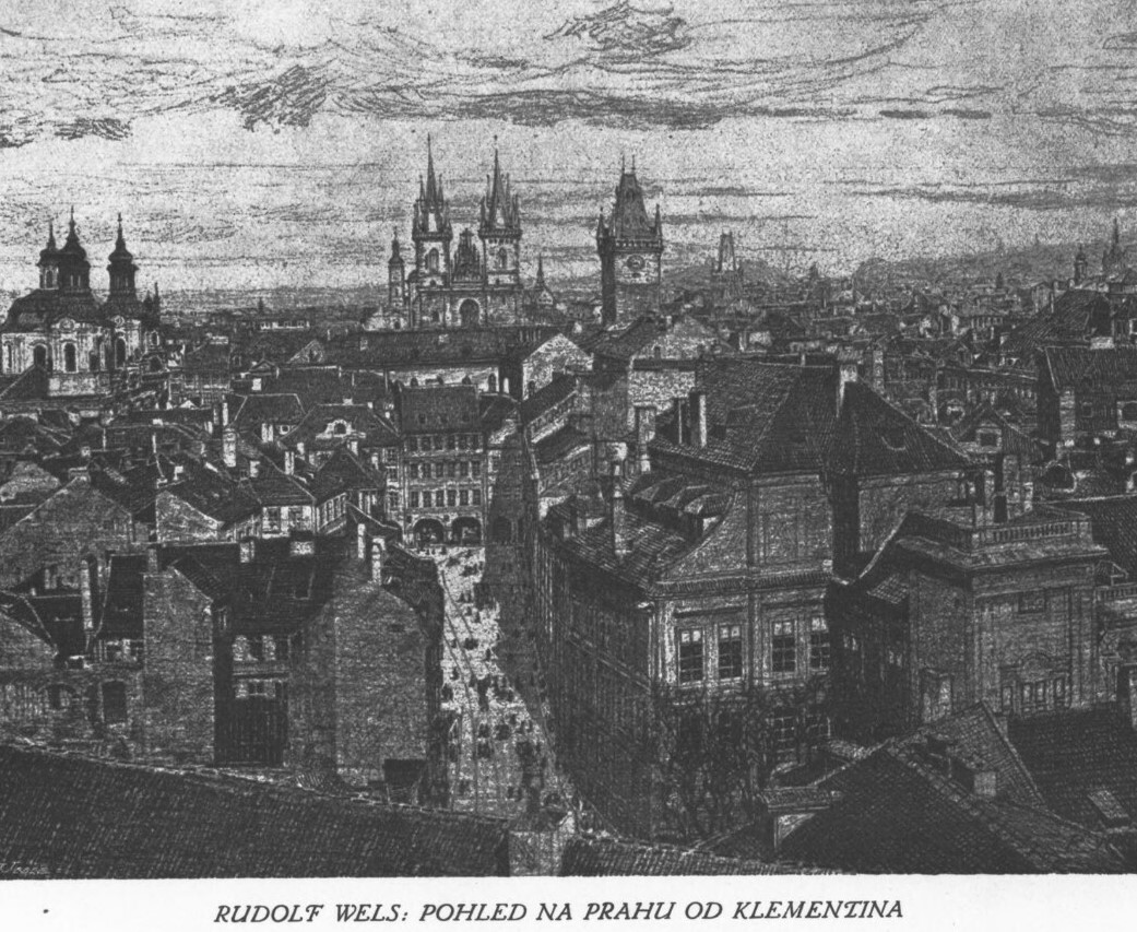 Rudolf Wels: Prague drawing (1920)